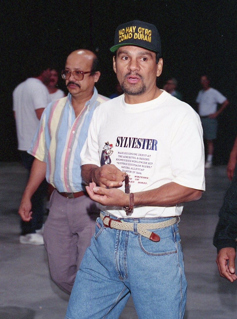 Roberto Duran preparing to fight Vinny Pazienza in Vegas 1994